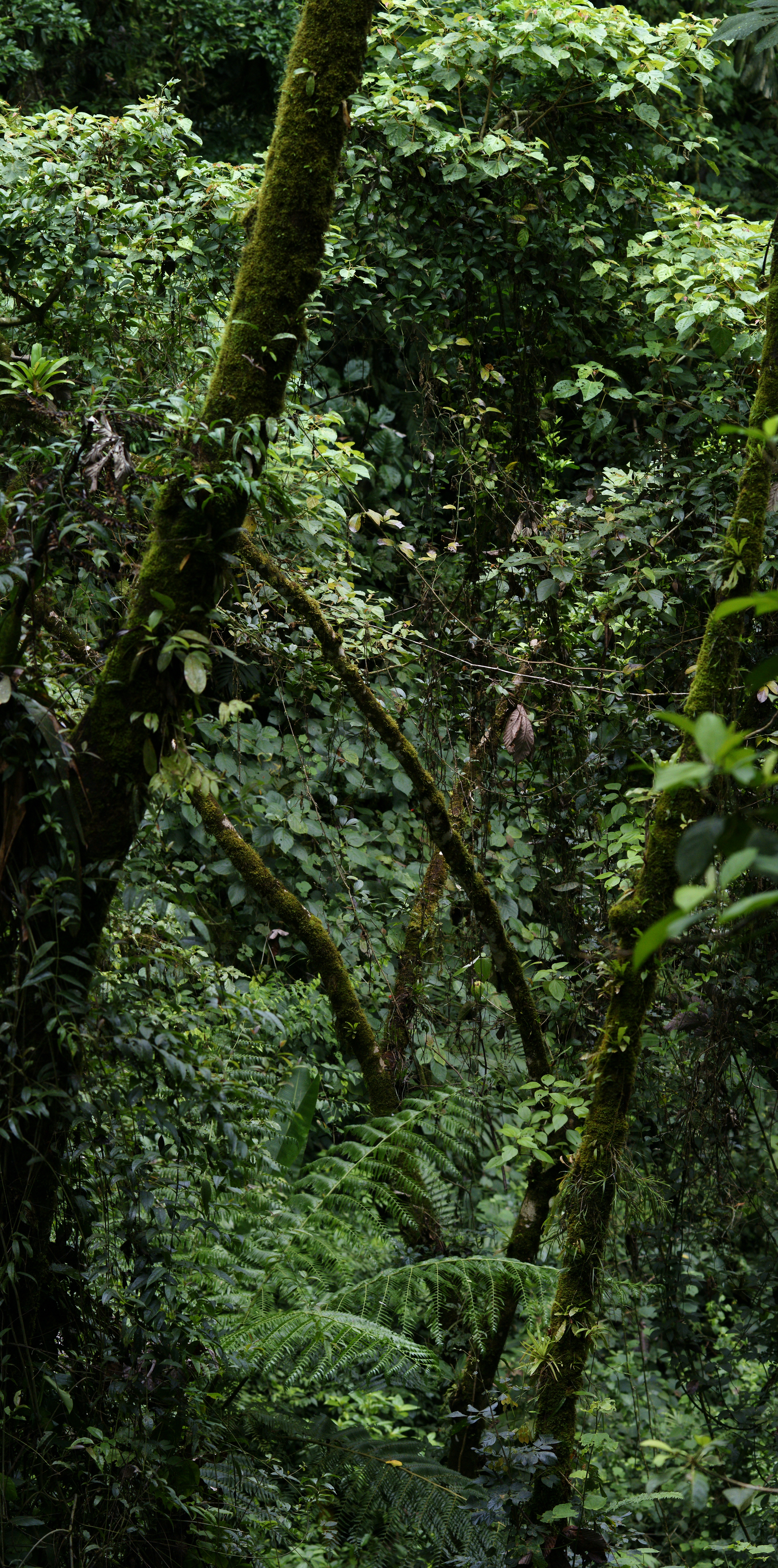 Rainforest at Puentes Colgantes near Arenal Volcano, Costa Rica View in interactive viewer